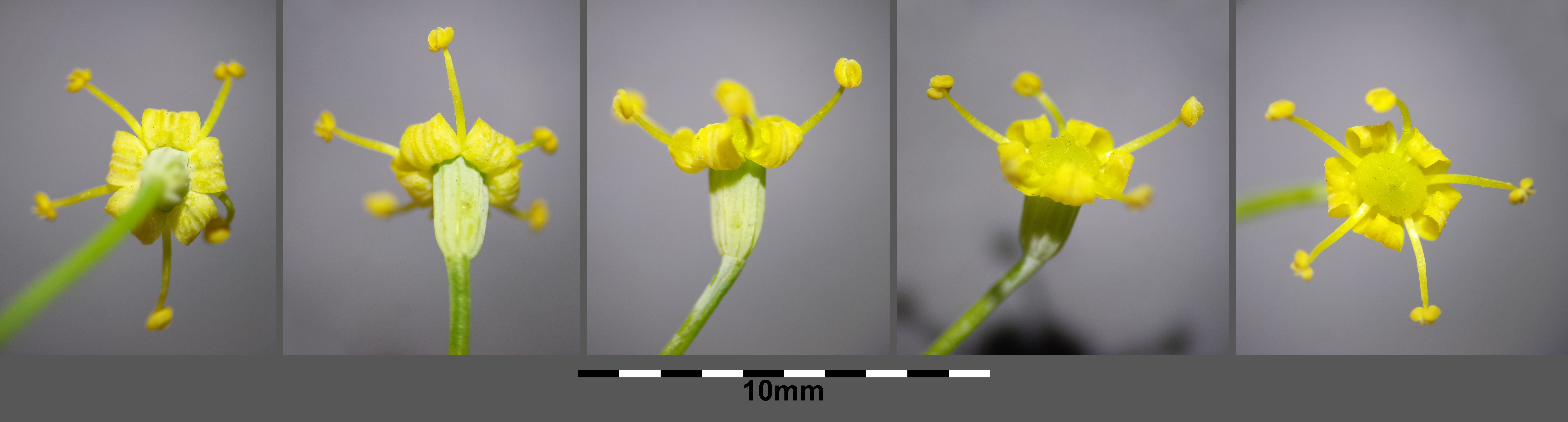 Flower Taxonym: Foeniculum vulgare ss Fischer et al. EfÖLS 2008 ISBN 978-3-85474-187-9 Location: Neue Donau, Vienna-Floridsdorf - ca. 160 m a.s.l. Habitat: dry meadows